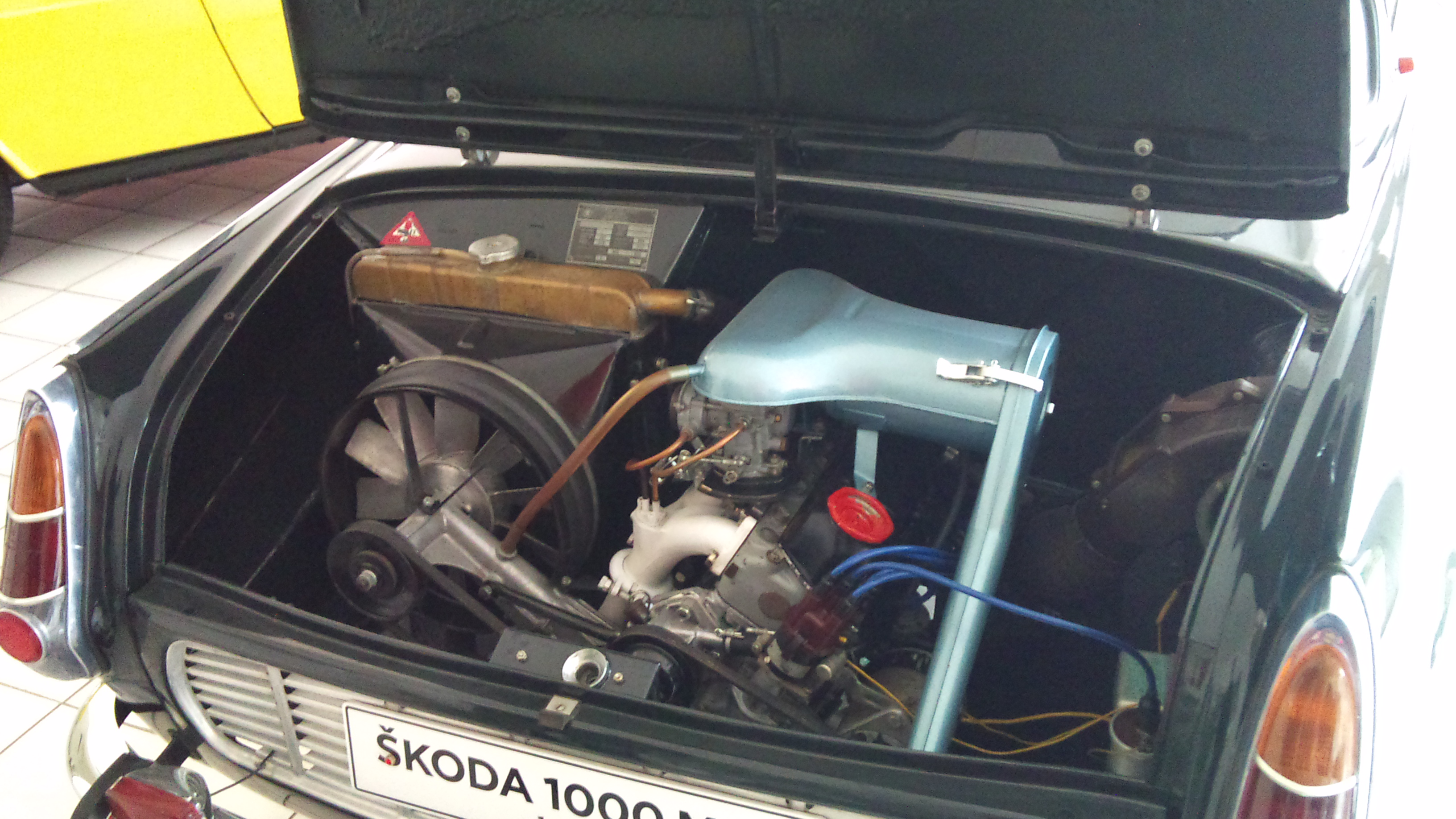 Shows the engine of a Skoda 1100MBX